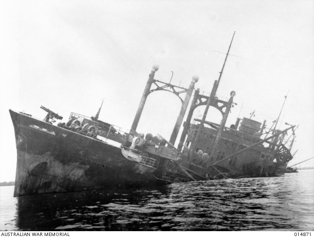 1943-05-19. NEW GUINEA. GONA. THIS WRECKED JAPANESE SHIP "AYATOSAN MARU", SUNK BY ALLIED AIRCRAFT DURING THE BATTLE OF GONA. IT IS NOW USED FOR TARGET PRACTICE BY ALLIED FORCES AT GONA BEACH. (NEGATIVE BY N. BROWN).